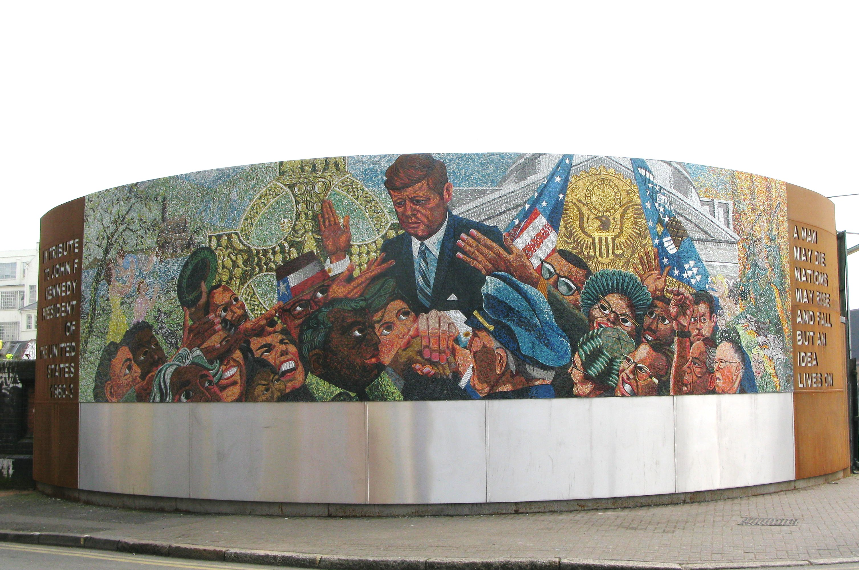 Re-erected 2013 in Digbeth close to Custard factory